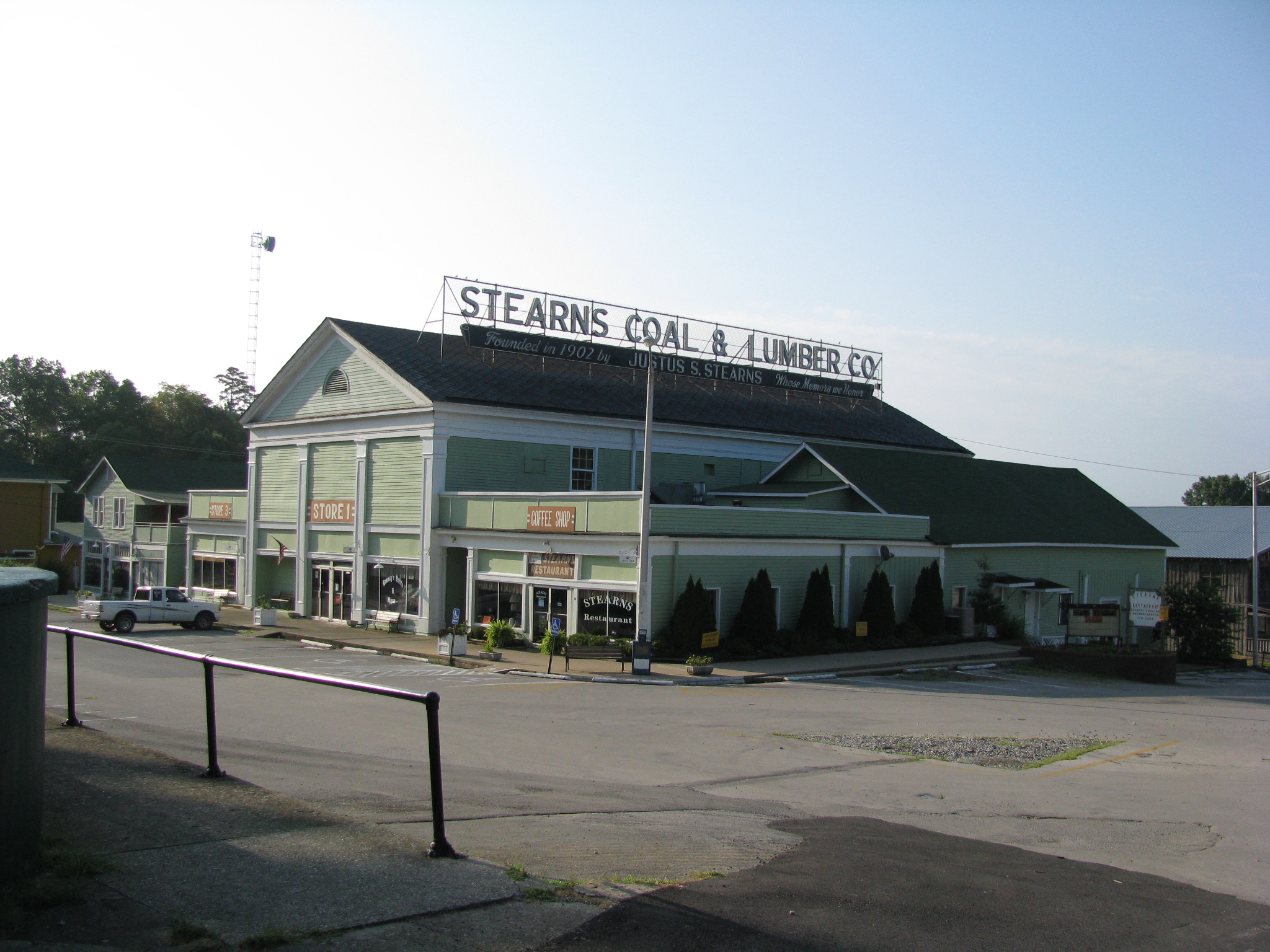 Stearns Administrative and Commercial District